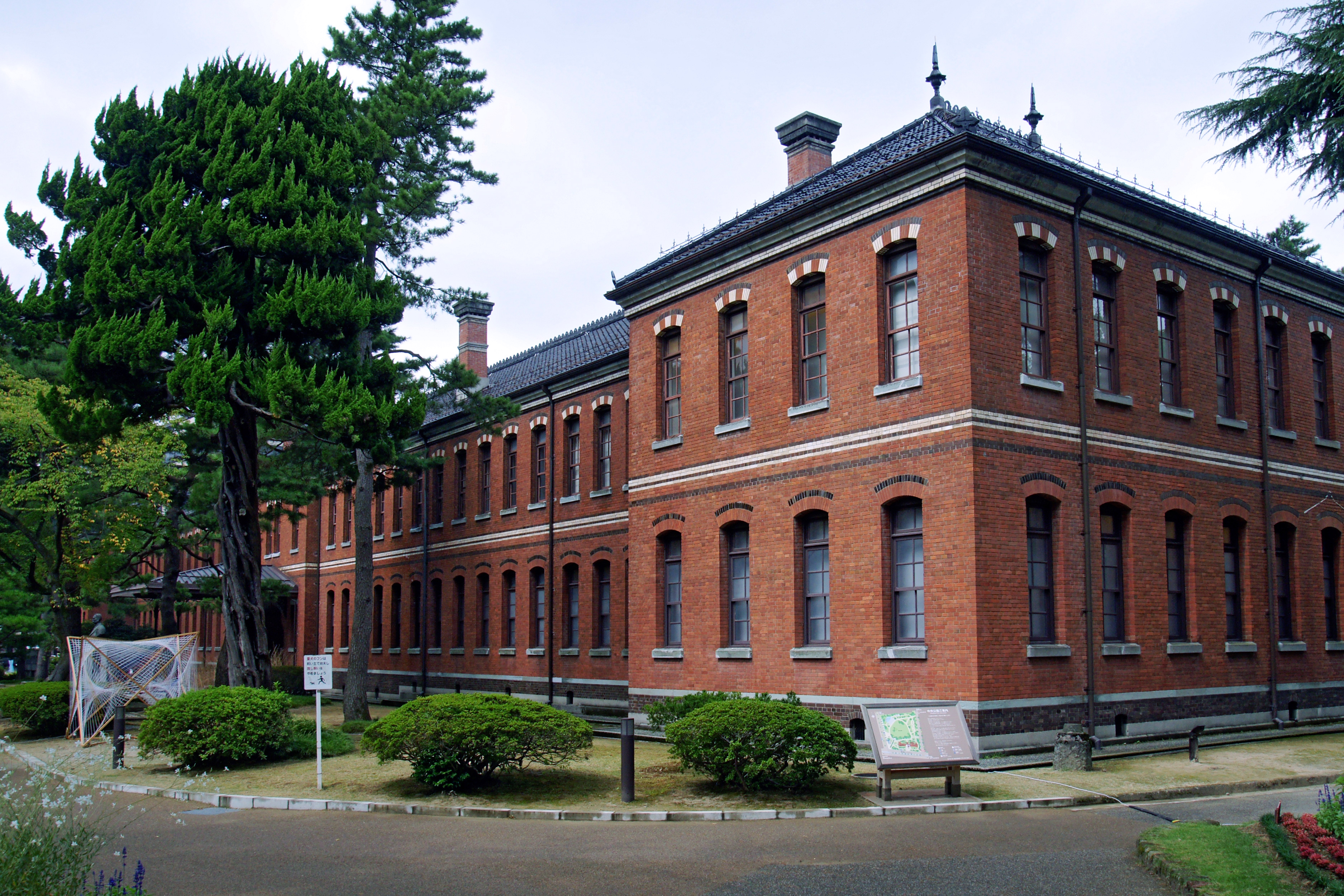 The Forth High School Memorial Museum of Cultural Exchange, Ishikawa (Ishikawa Modern Literature Museum) in Kanazawa, Ishikawa prefecture, Japan